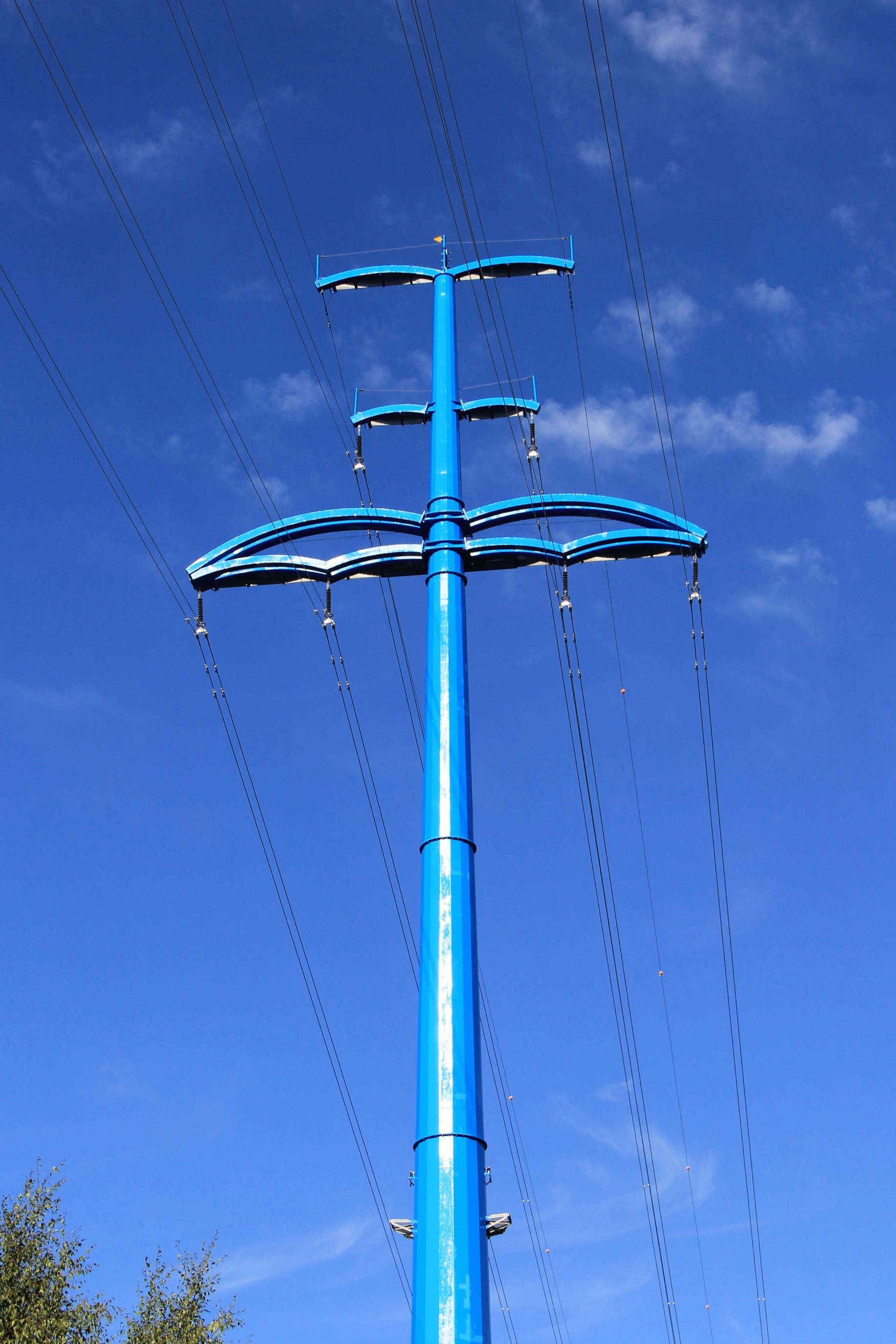 Vaasa Pohjoinen Kaupunginselkä landscape pylon, conical steel pylon of overhead power line between Vaasa City Center and island of Vaskiluoto, Vaasa, Finland. - Power line crosses open water, one of three landscape pylons stands on manmade island. Pylons were completed in 2014 and are painted blue. - Landscape pylon number 3, last on landscape pylon line.